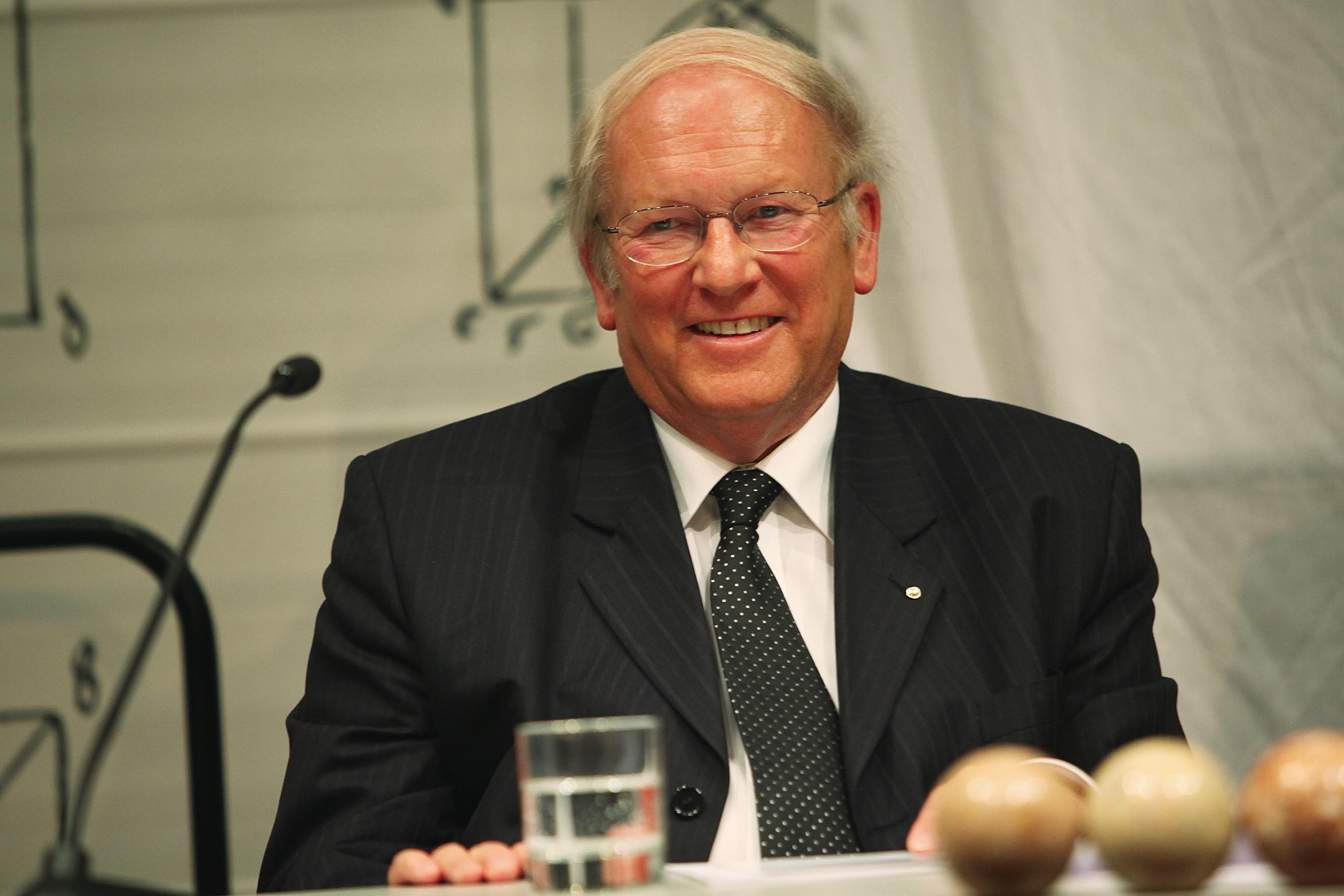 Portrait of Rüdiger Ahrens, Professor of Applied Linguistics